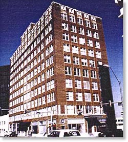 Modern picture of the Dermon Building from my own collection